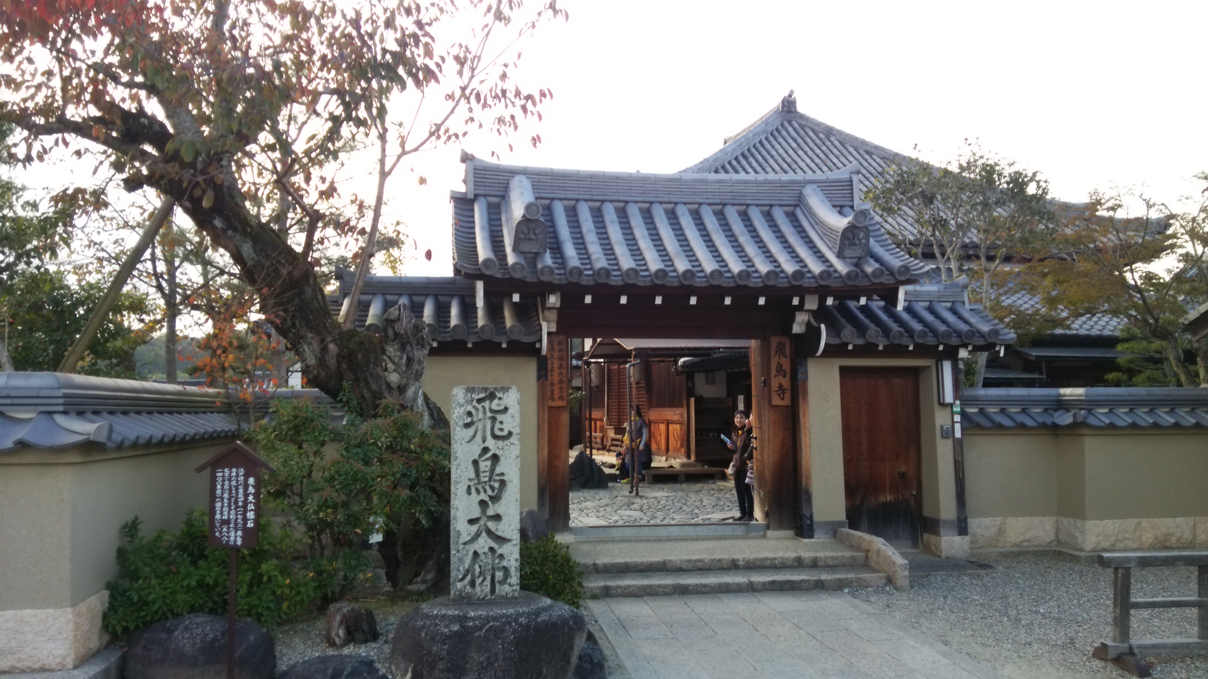 Asuka-Temple, the Oldest temple of Japan